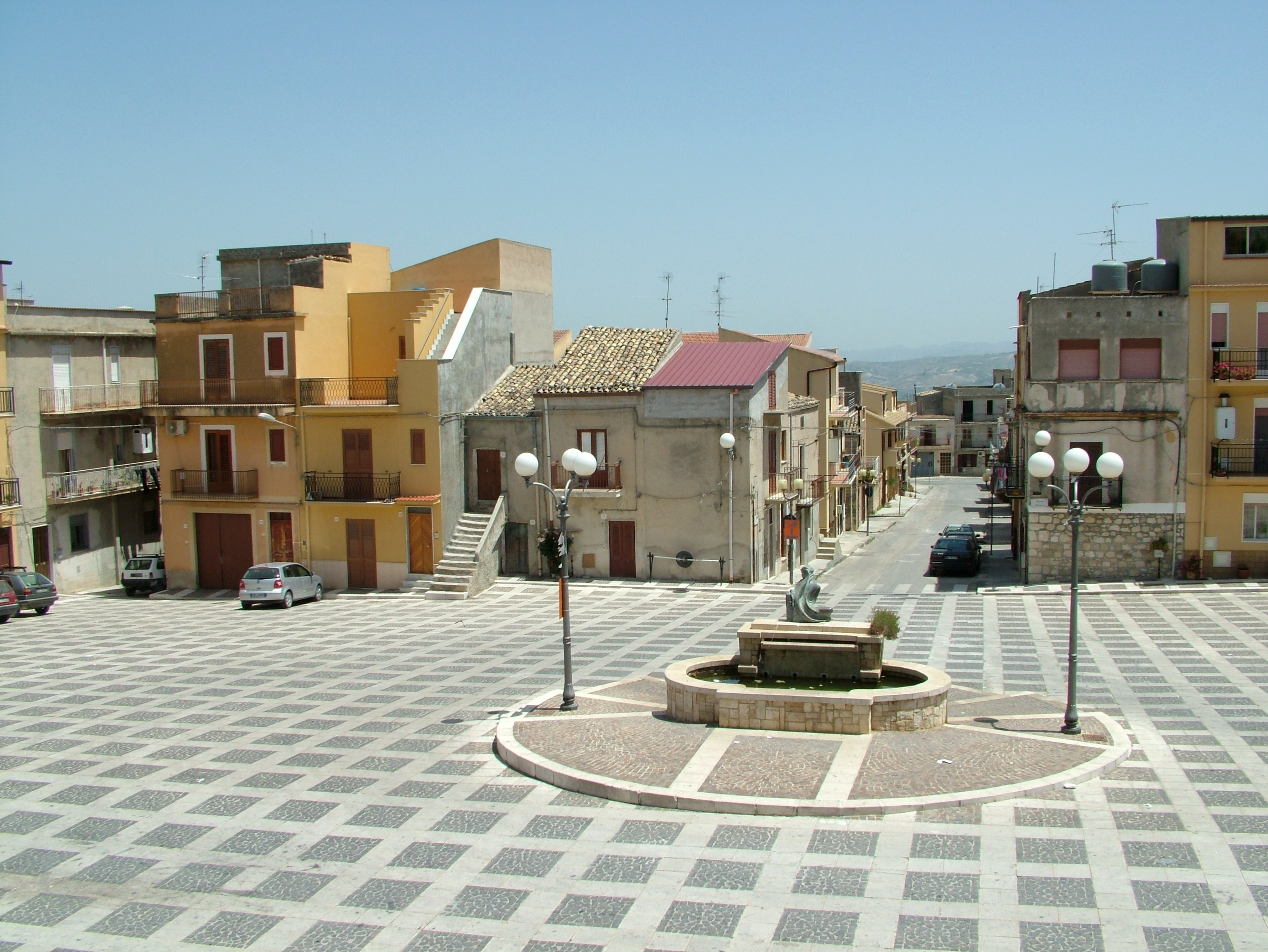 piazza Fontana (Fountain plaza), Sant'Anna, Caltabellotta subtown (frazione)